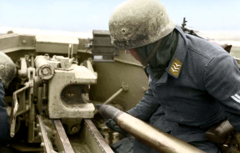 This is a retouched picture, which means that it has been digitally altered from its original version. Modifications: recolored. The original can be viewed here: Bundesarchiv Bild 101I-560-1113-20, Russland, Fallschirmjäger beim Geschützladen.jpg: . Modifications made by Ruffneck88. Hanns Gross: Russland, Fallschirmjäger beim Geschützladen Photographer Hanns Gross (1910–1945) DescriptionGerman photographer and war correspondentDate of birth/death 1910 1945Location of birth Bamberg Authority control : Q88949847 VIAF: 304964050 GND: 1037941810 photographer QS:P170,Q88949847Archive description Description provided by the archive when the original description is incomplete or wrong. You can help by reporting errors and typos at Commons:Bundesarchiv/Error reports. Sowjetunion.- Obergefreiter der Fallschirmjäger beim Laden eines Geschützes; XI FliegerkorpsTitle Russland, Fallschirmjäger beim Geschützladen Description Information added by Wikimedia users.Das Geschütz ist eine 7,5cm Pak 40.Depicted place RussiaDate March 1943date QS:P571,+1943-03-00T00:00:00Z/10Collection German Federal Archives Native nameDas BundesarchivLocationKoblenz (headquarters)Coordinates50° 20′ 32.71″ N, 7° 34′ 21.22″ E Established1946Web page control : Q685753 VIAF: 137346469 ISNI: 0000 0004 0555 2728 LCCN: n92025526 NLA: 36455393 Open Library: OL55798A WorldCat institution QS:P195,Q685753Current location Propagandakompanien der Wehrmacht - Heer und Luftwaffe (Bild 101 I)Accession number Bild 101I-560-1113-20 Source This image was provided to Wikimedia Commons by the German Federal Archive (Deutsches Bundesarchiv) as part of a cooperation project. The German Federal Archive guarantees an authentic representation only using the originals (negative and/or positive), resp. the digitalization of the originals as provided by the Digital Image Archive. Information added by Wikimedia users.Das Geschütz ist eine 7,5cm Pak 40.